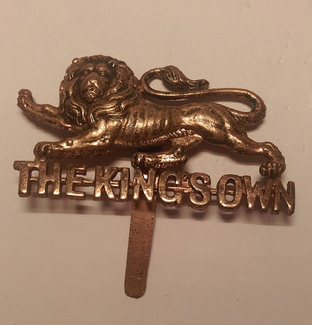 Photo of King's Own Royal Regiment (Lancaster) Cap Badge from personal collection